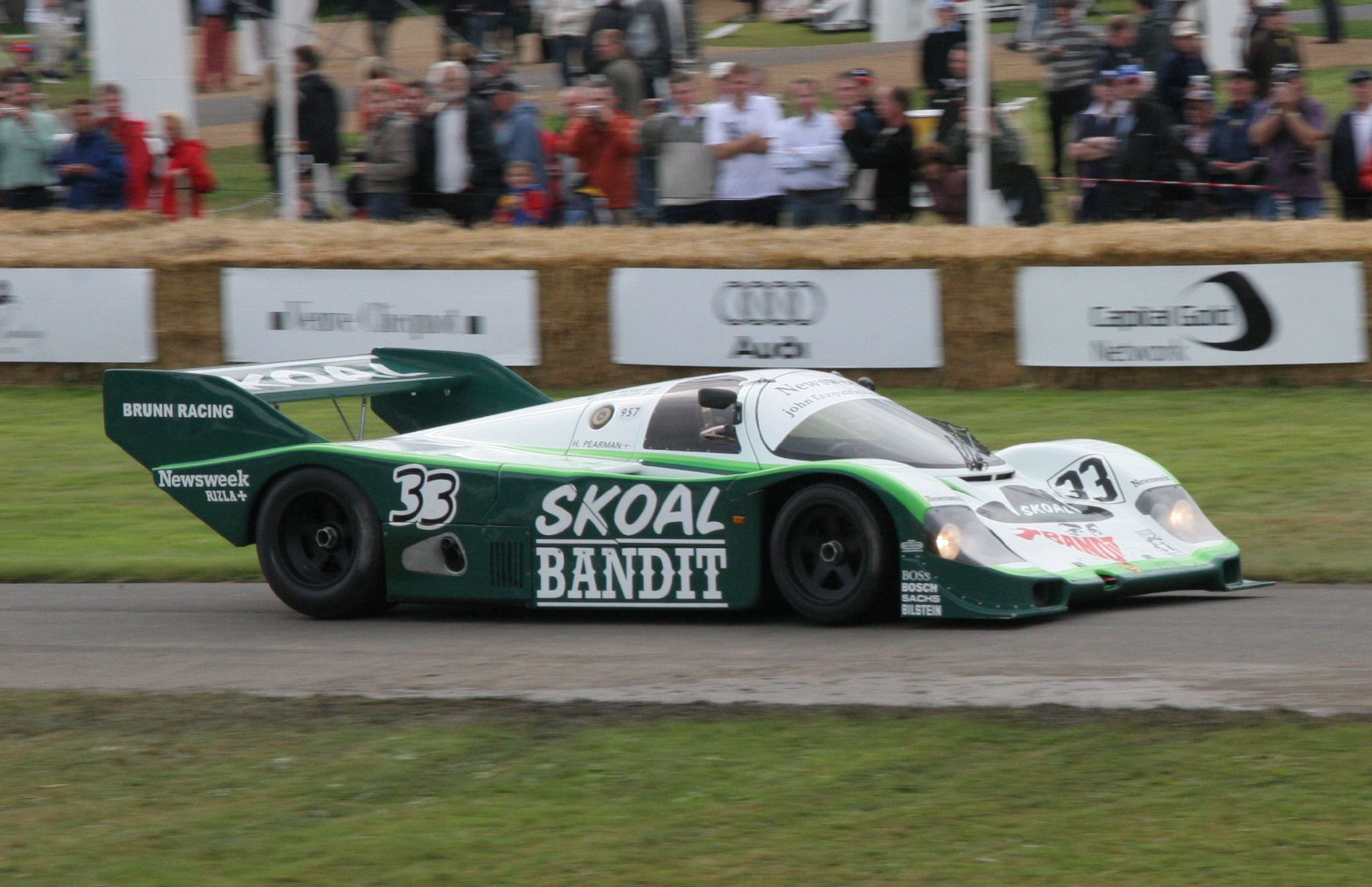 Brunn Racing-Sportwagen, Martin Koenig (GB), Porsche 956 B / Chassis 956-114, GTP-2" - Gr. C1 & GTP; Goodwood Festival of Speed 2007